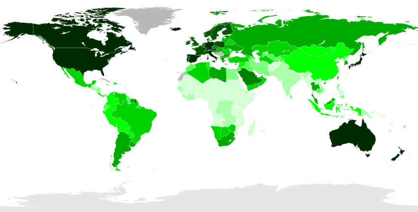 as png-version with smaller file size and without edge.